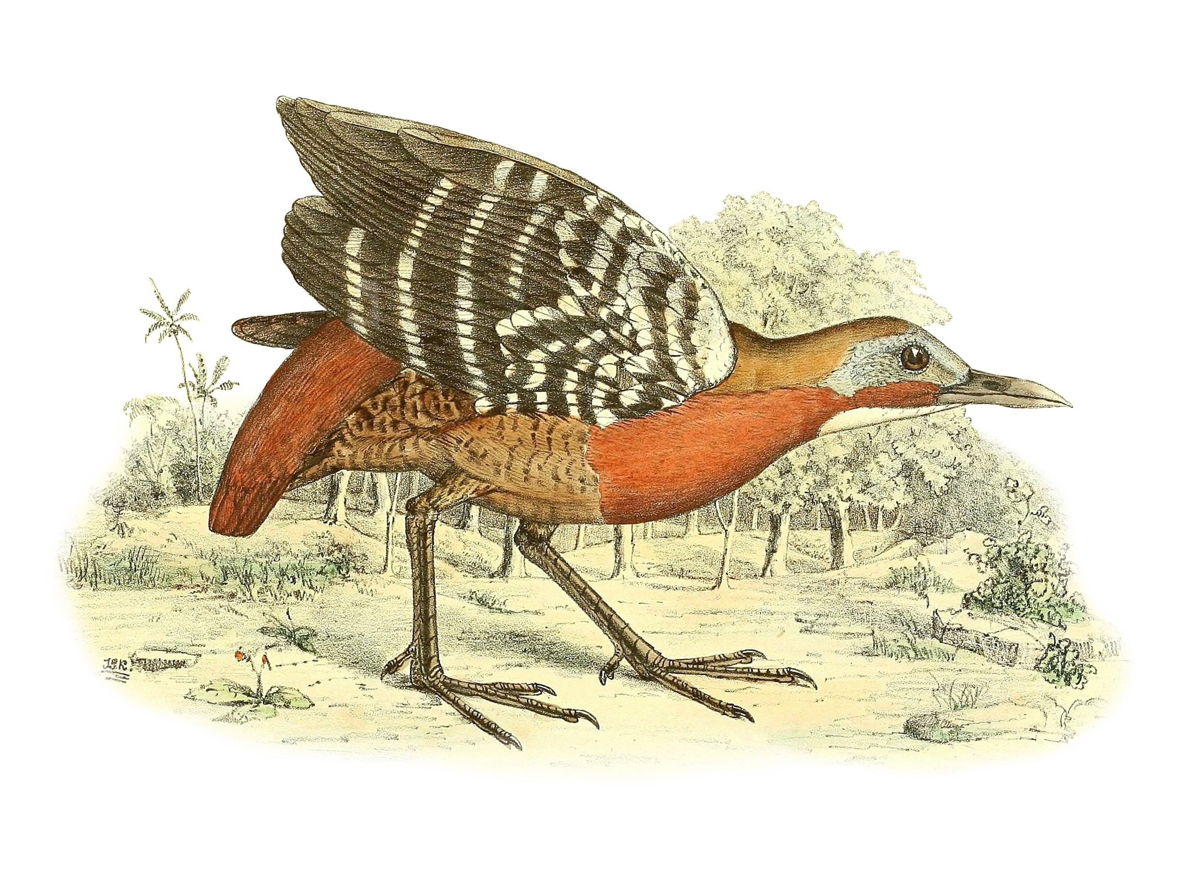 Rallina kioloides = Canirallus kioloides (Kioloides Rail), adult